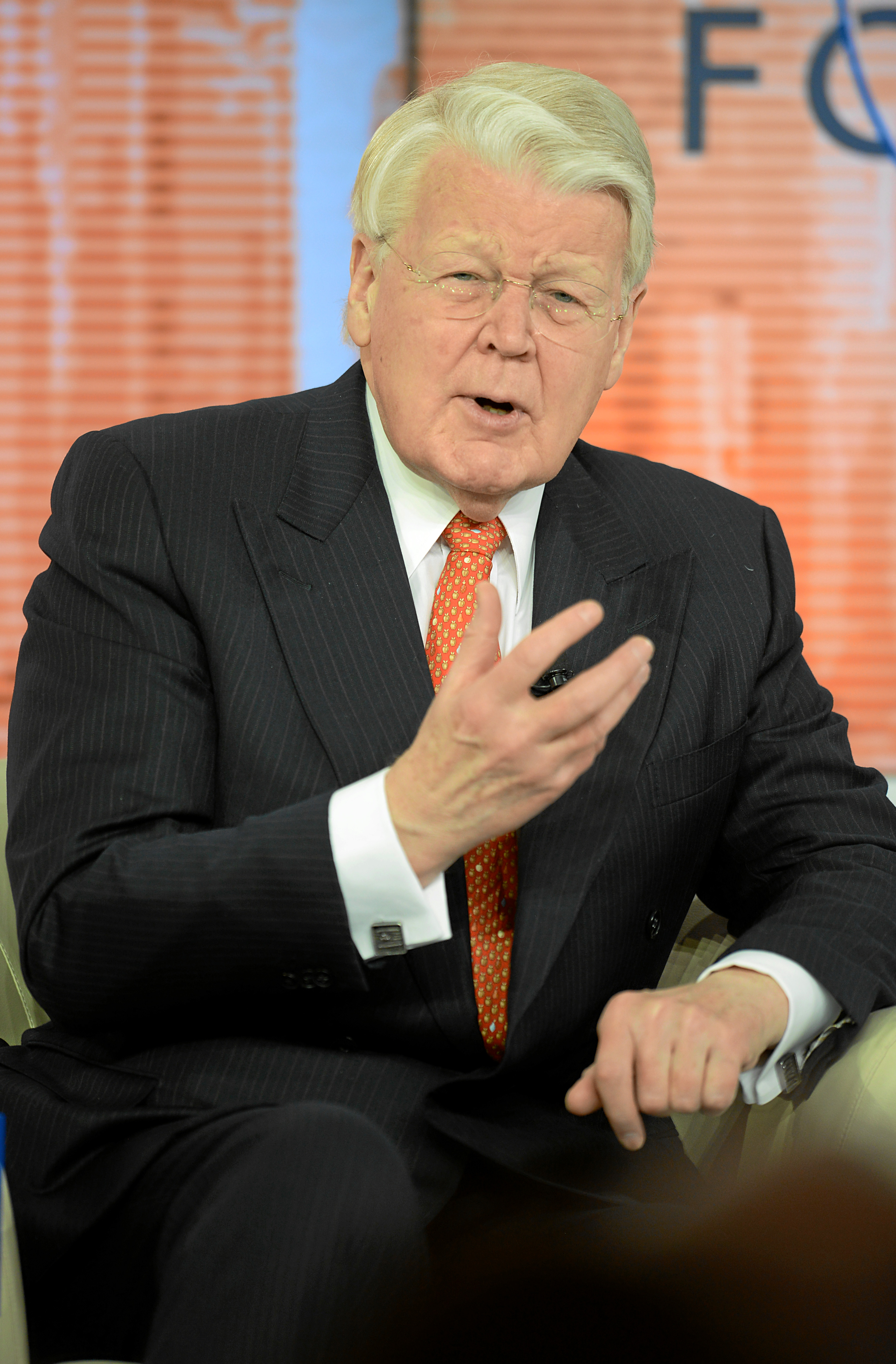 DAVOS/SWITZERLAND, 25JAN13 - Olafur Ragnar Grimsson, President of Iceland gestures during the session 'The Economic Malaise and Its Perils' at the Annual Meeting 2013 of the World Economic Forum in Davos, Switzerland, January 25, 2013. . . Copyright by World Economic Forum. . Michael Wuertenberg